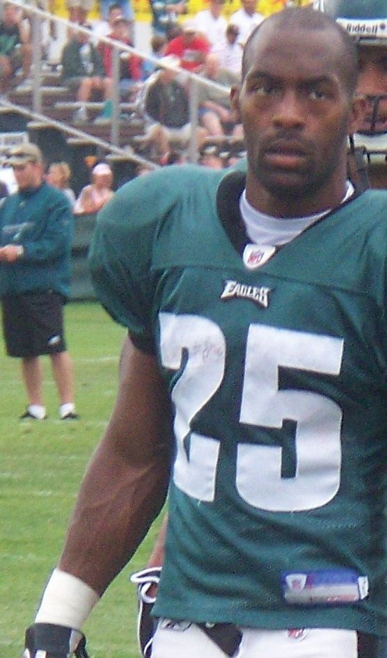 L-R: Mike Gibson, Dallas Reynolds (#66), Fenuki Tupou (#78), Lorenzo Booker (#25), Leonard Weaver (#43)